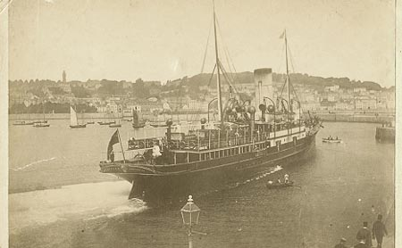 Photograph of the London and South Western Railway steamship SS Stella, launched 1890, wrecked 1899.